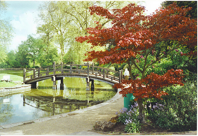 Stoke Park Pond, Guildford. The municipal park, bought by the borough in 1925, is now surrounded by houses as the town grew eastwards. Stoke village is still remembered by the local church, lock, mill, road of the same name.